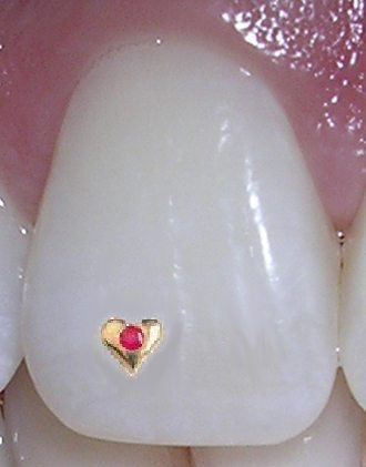 Tooth with twinkle